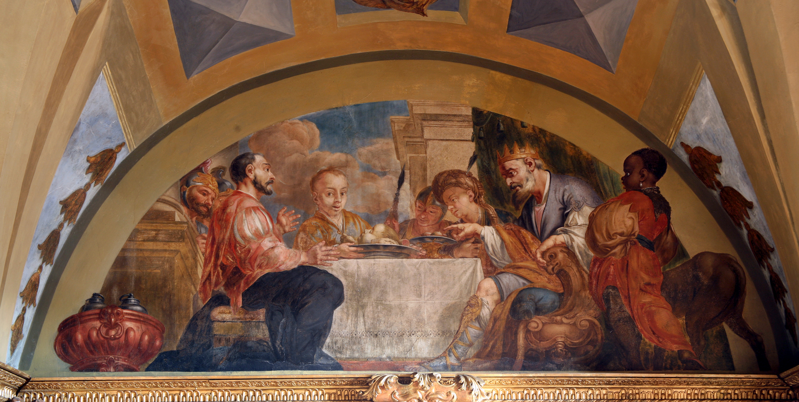 Václav Jindřich Nosecký and Michael Václav Halbax, Feast of Thyestés and Átreus, Zákupy Castle